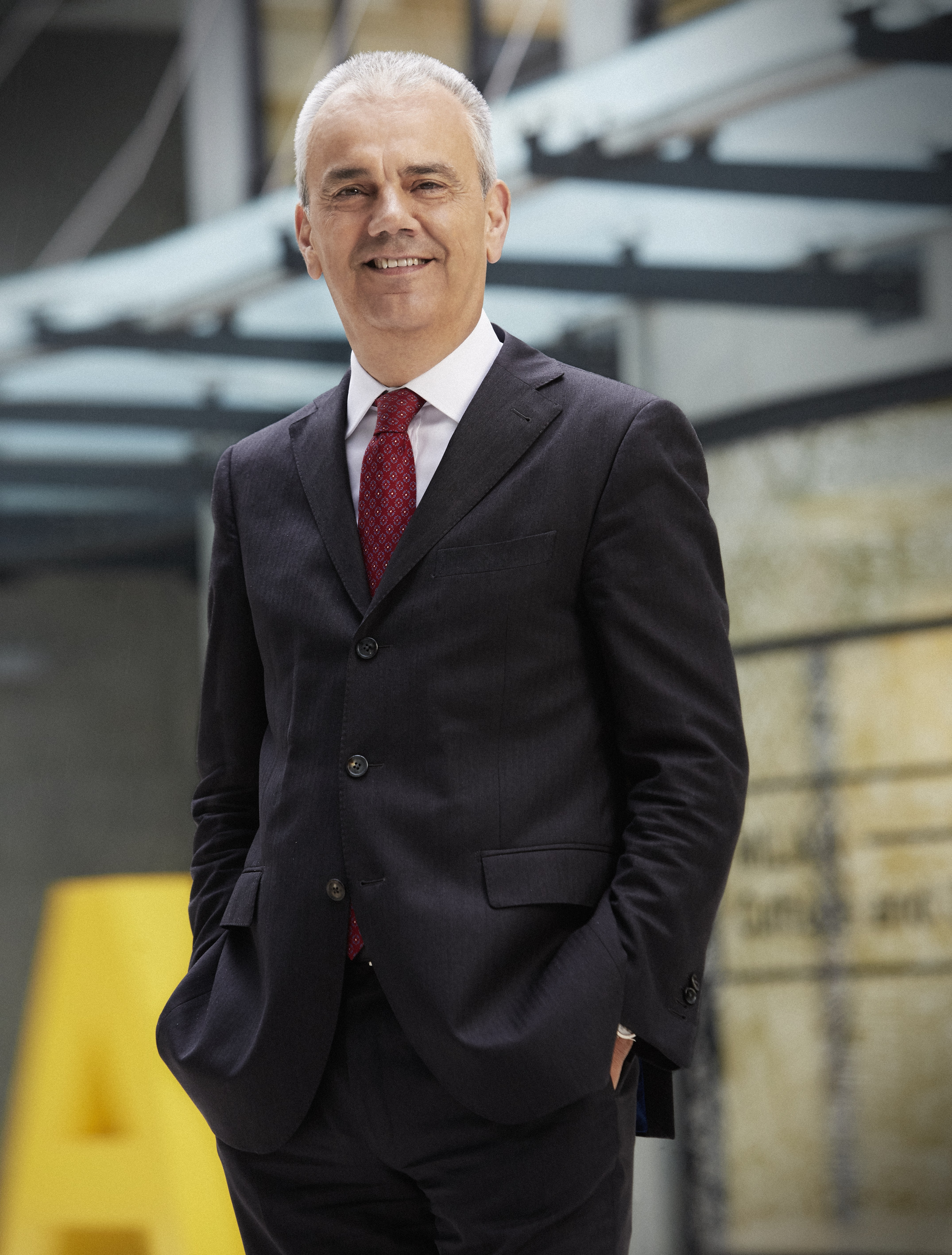 CEO EY Italy, Chairman Salini Impregilo